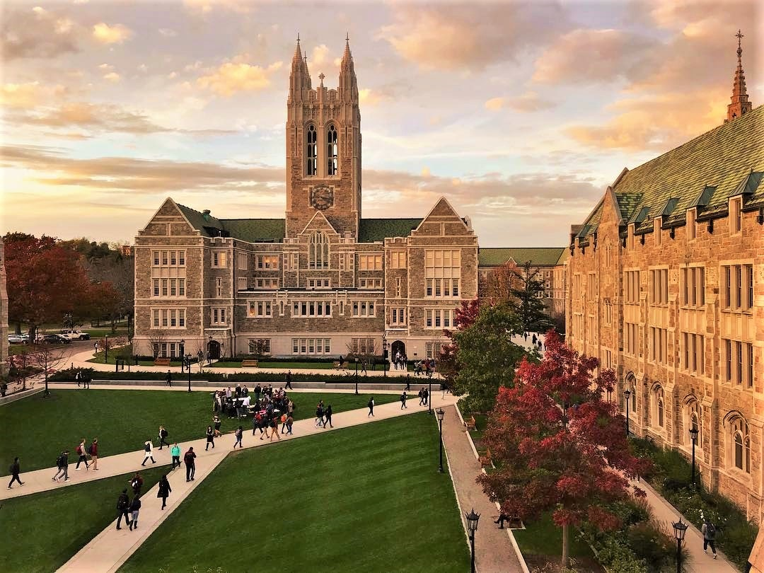 Gasson Quandrangle at Boston College (not campus green)